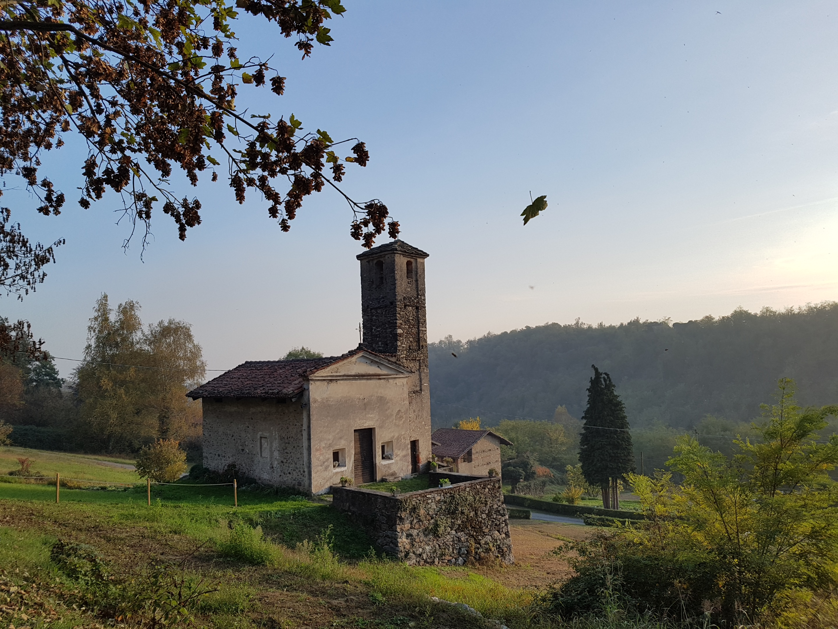 St Mary Magdalene Church, Burolo, Northern Italy